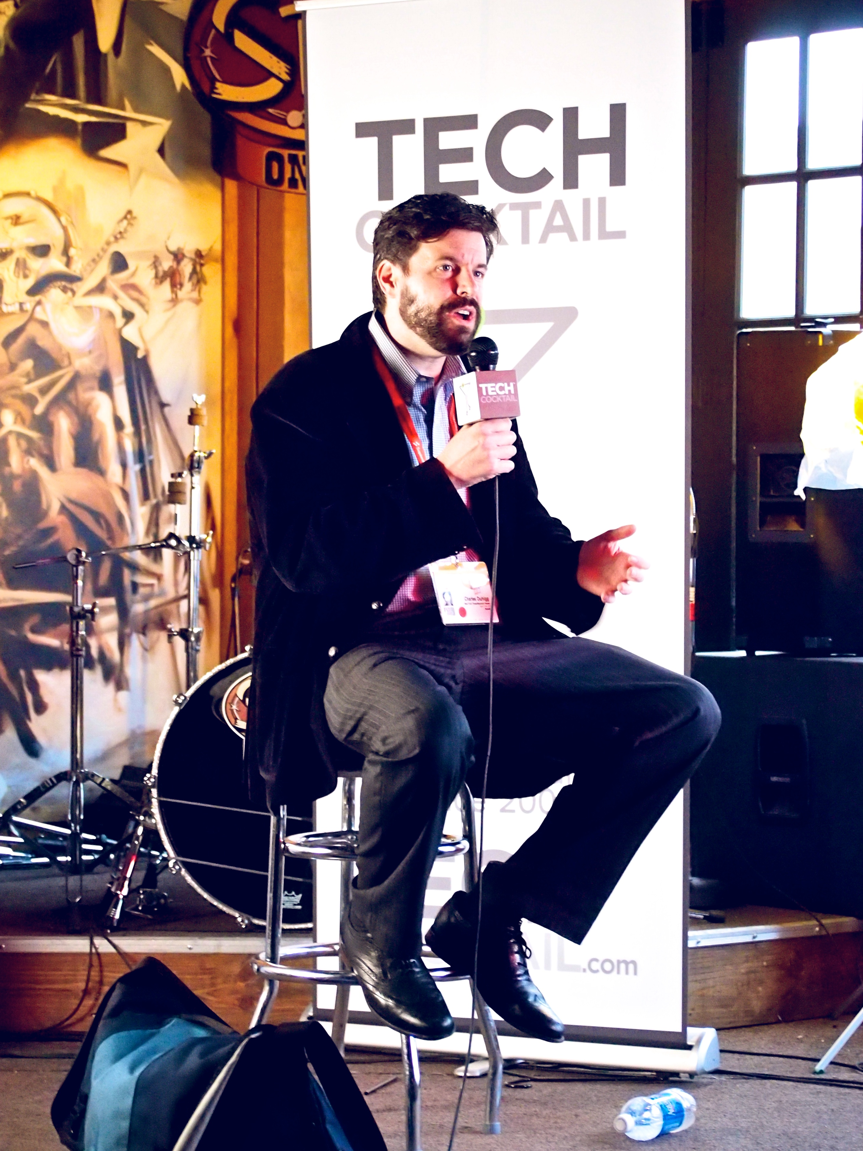 Charles Duhigg at TechCocktail